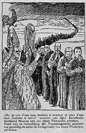 Caption: I represent a race that is predestined to rule and you represent a race predestined to serve”, these are the words of His Excellency Cardinal Mercier addressed to one of his Flemish priests. Never before has the oppression of pro-Flemish priests been as harsh as under the tyranny of this Walloon politician.